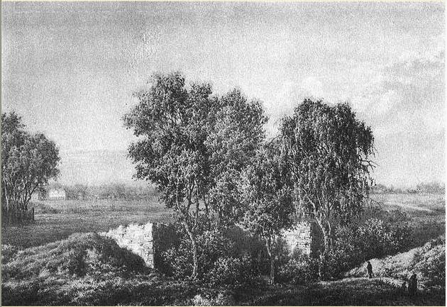 Napoleon Orda (1807-1883), manor ruins in Knyszynie